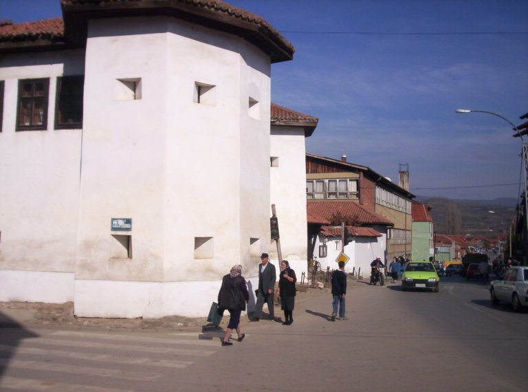 Vlasotince Museum Heritage, Serbia